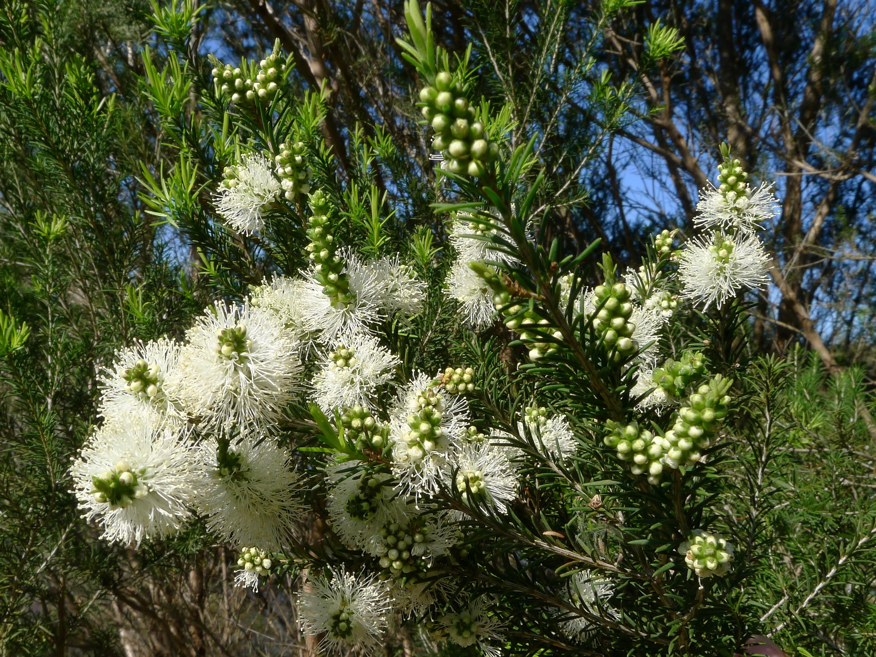 Swamp Paperbark, possibly Melaleuca ericifolia. Ashbrook Park, Rowville Victoria Australia, September 2011.